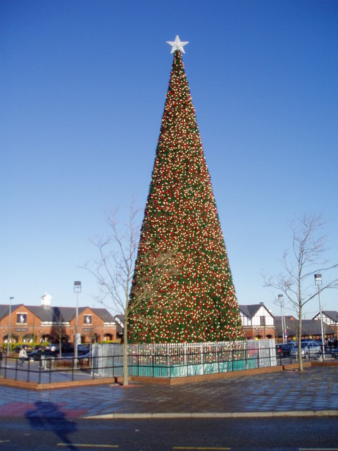 Giant Christmas Tree, Cheshire Oaks - five-pointed star of Bethlehem finial on the top.